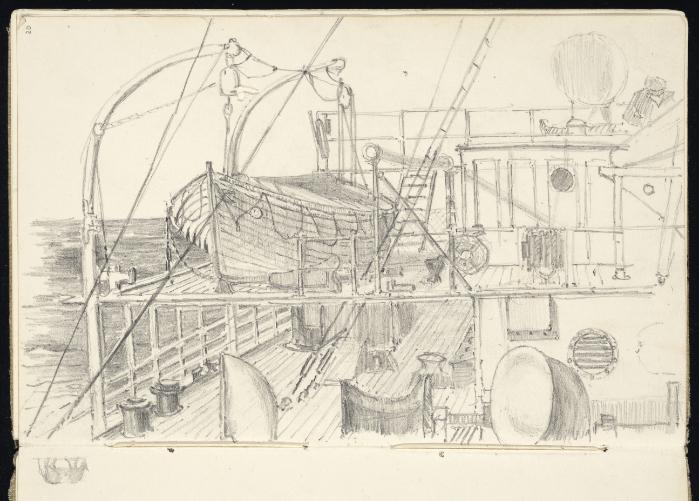 SS Athenic (1901): View of the upper and lower deck with lifeboat suspended from the davit; superstructure, funnels and rigging (Pencil drawing 140 x 215 mm)